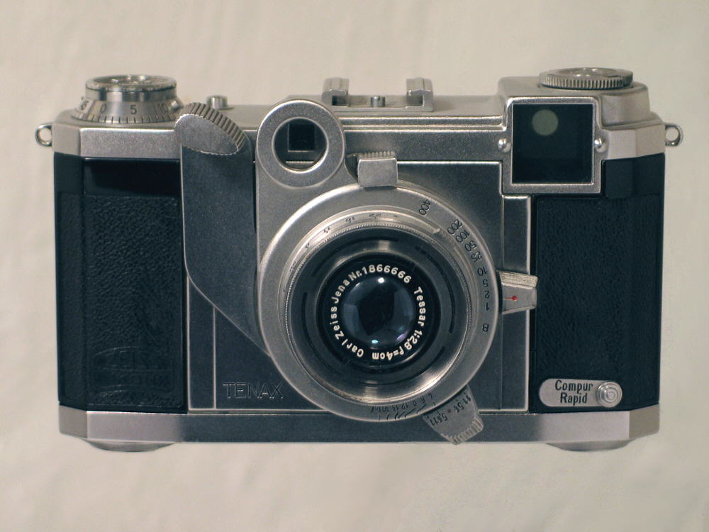 ZI Tenax II